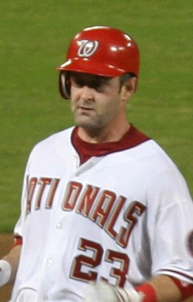 Washington Nationals player Brian Schneider.